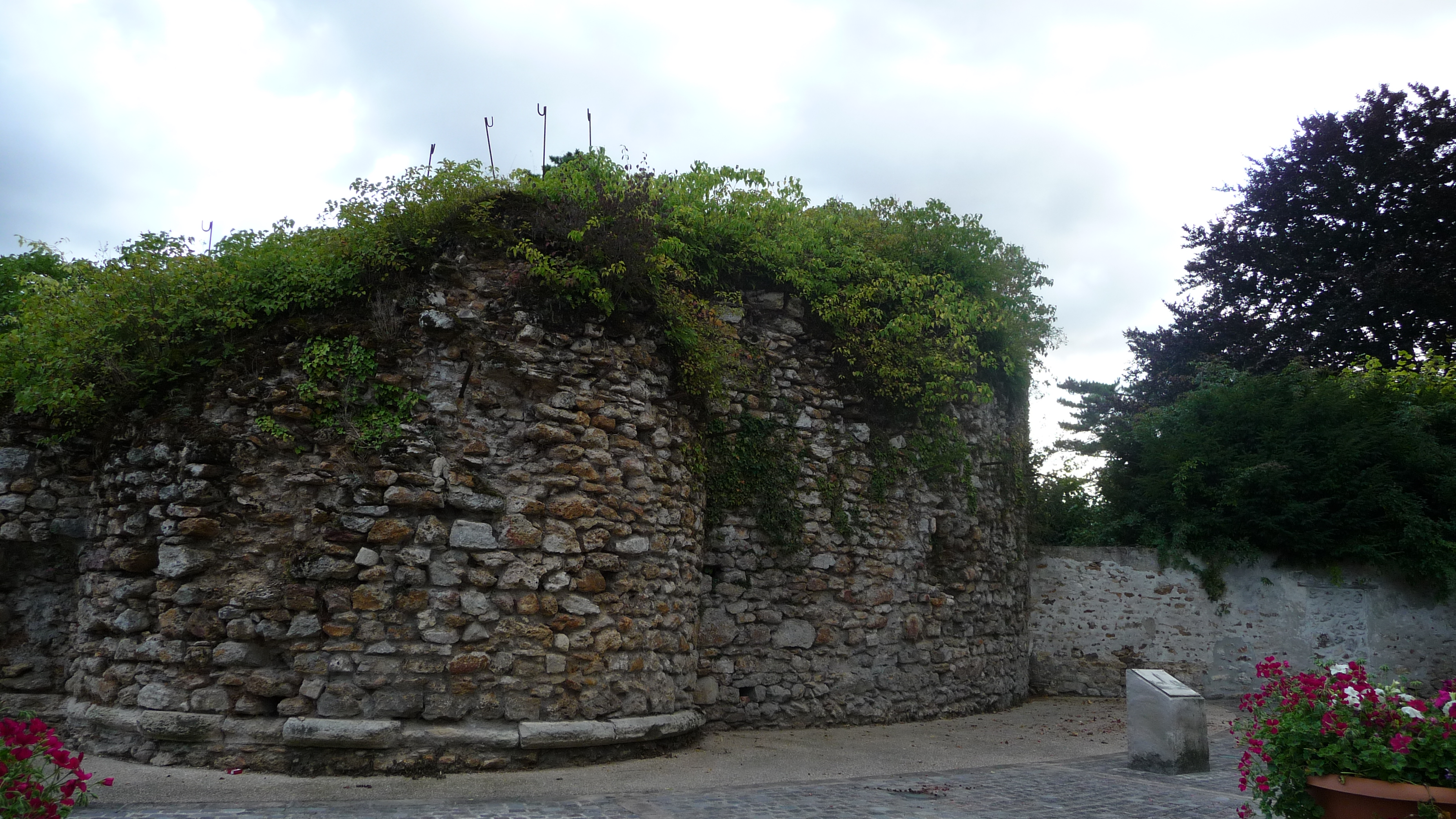 Ruins of the medieval tower of la Queue-en-Brie. The tower collapse in 1866.